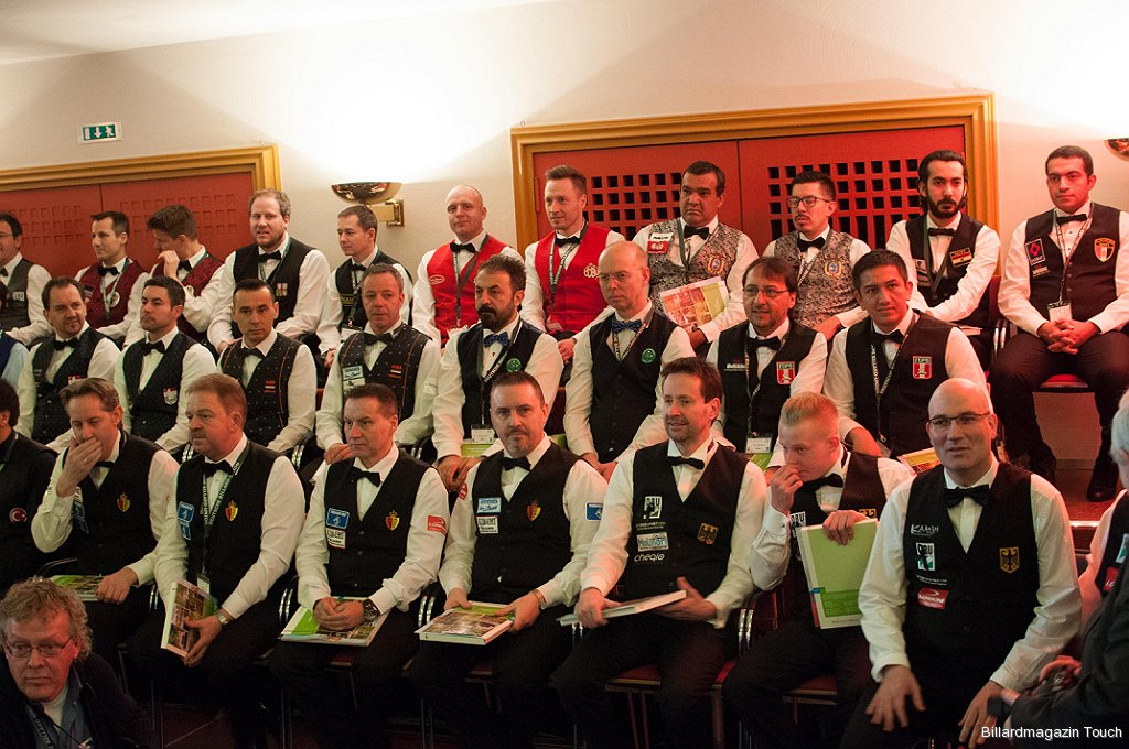 see file name